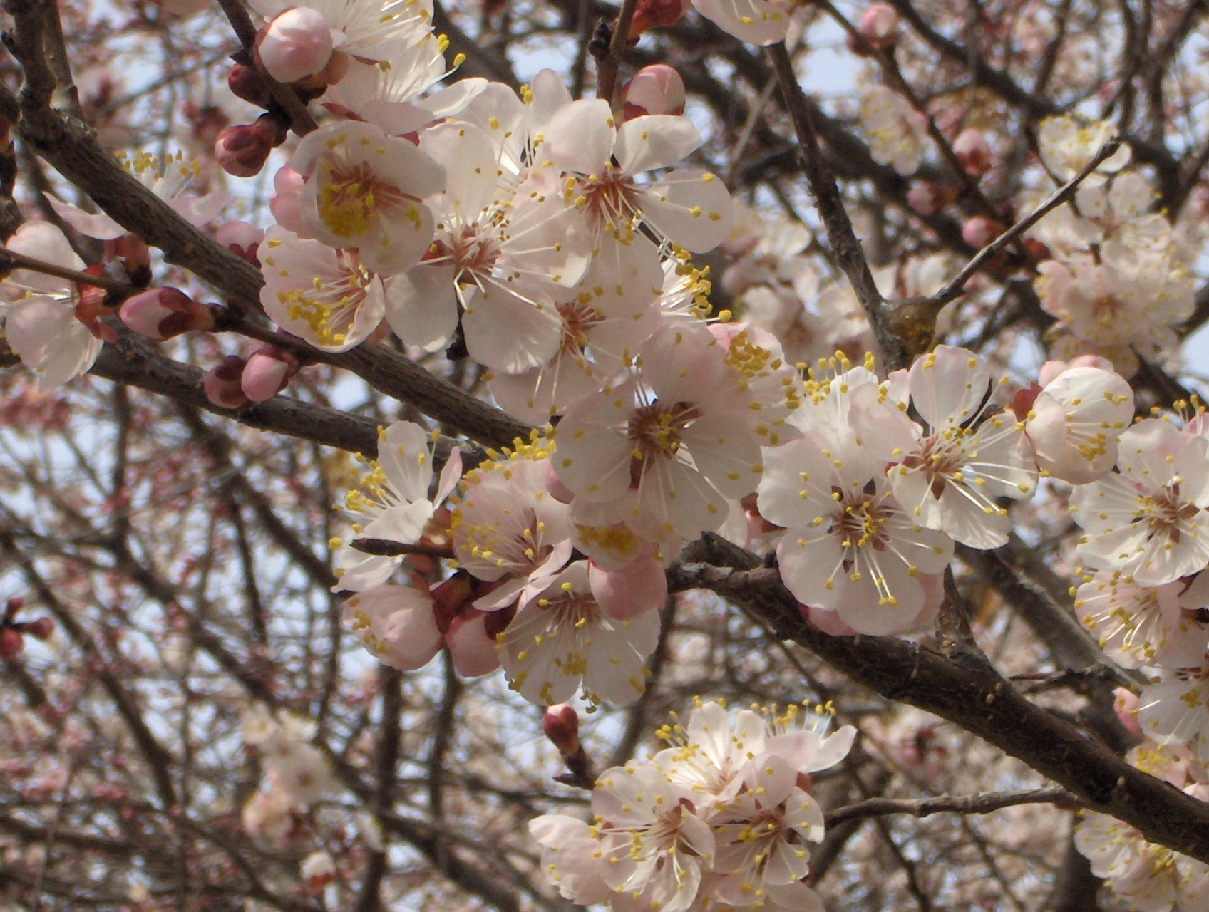 Apricot tree flower in March